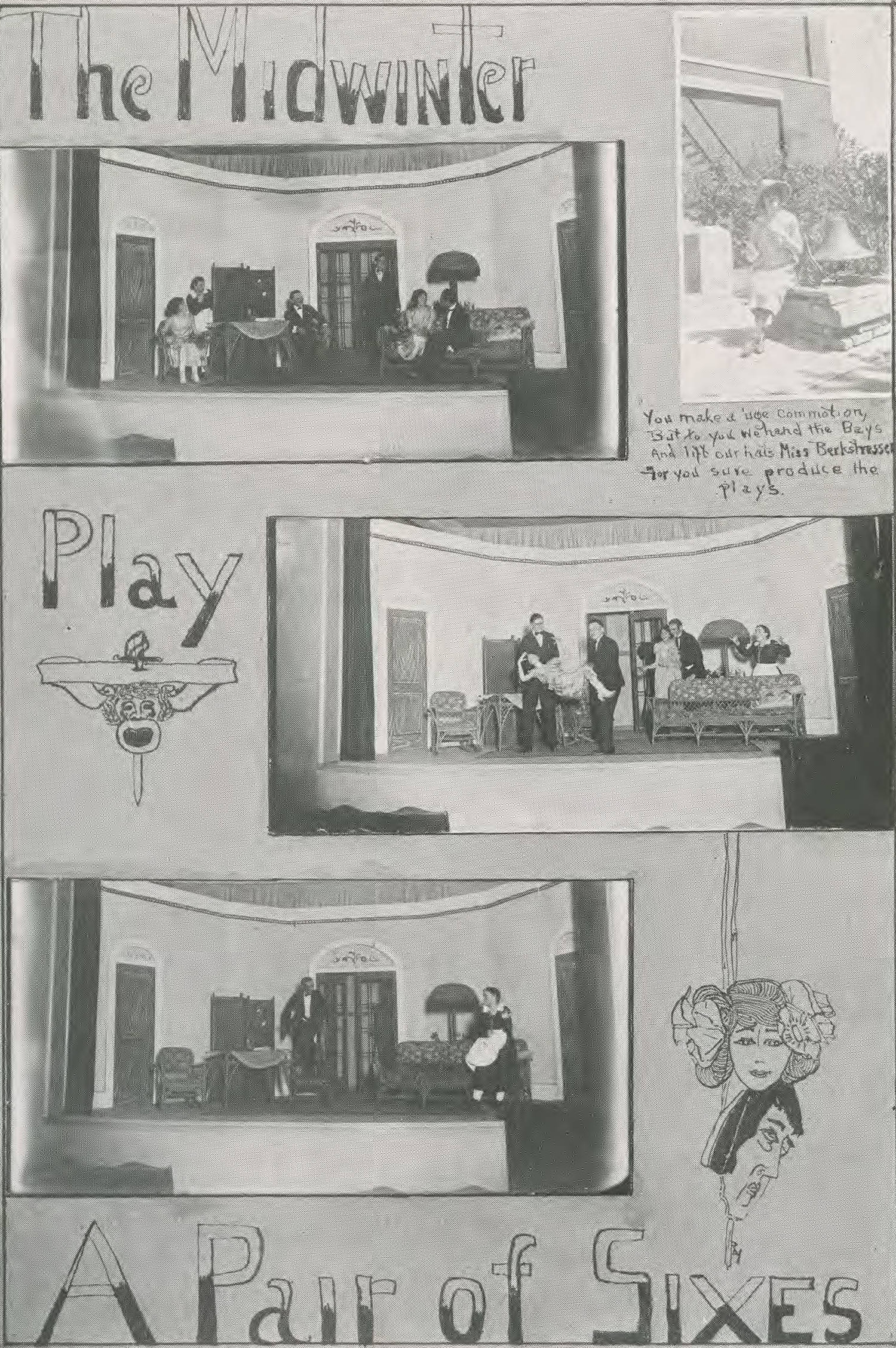 The Midwinter Play, A Pair of Sixes, at East Texas State Normal College.